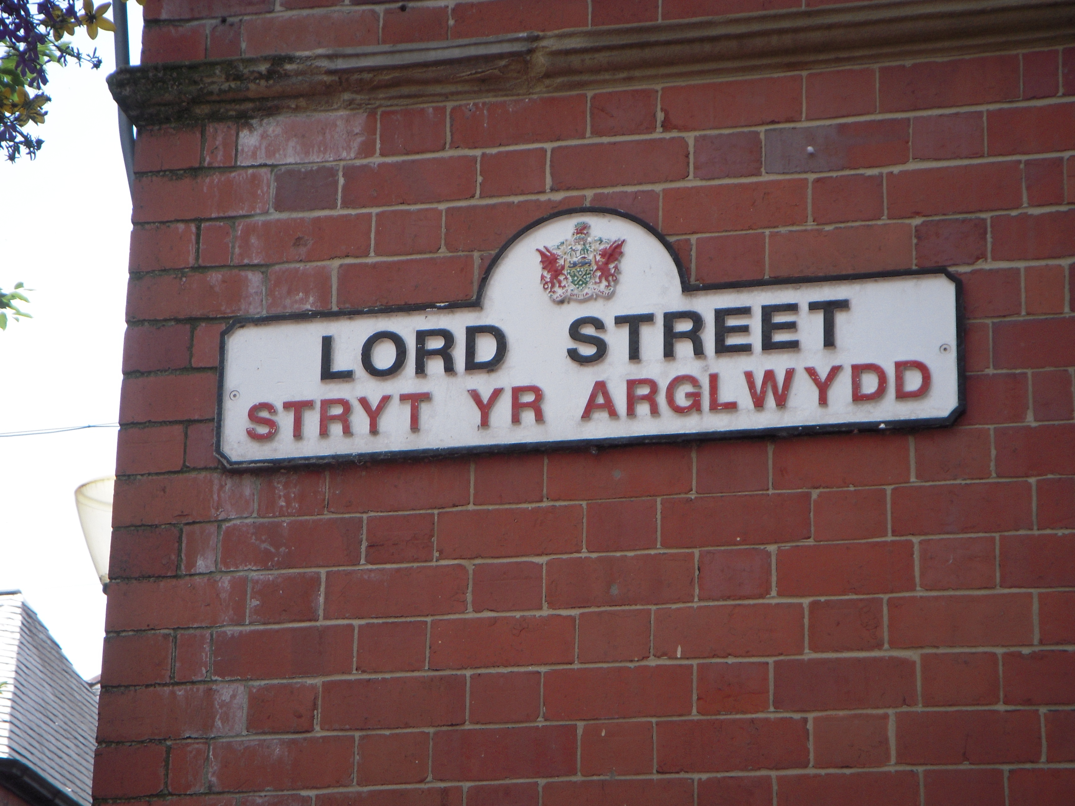 Street sign from Lord Street in Wrexham, Wales. July 13, 2011.